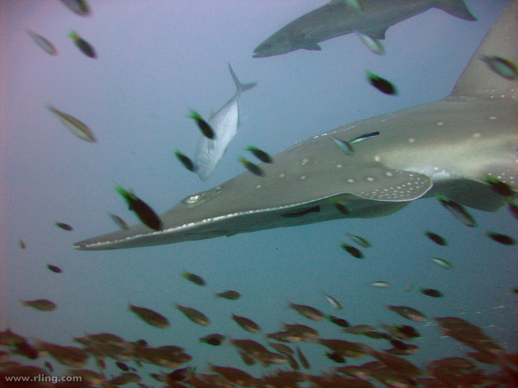 A Whitespotted Guitarfish (Rhynchobatus djiddensis). Yongala Wreck, Great Barrier Reef